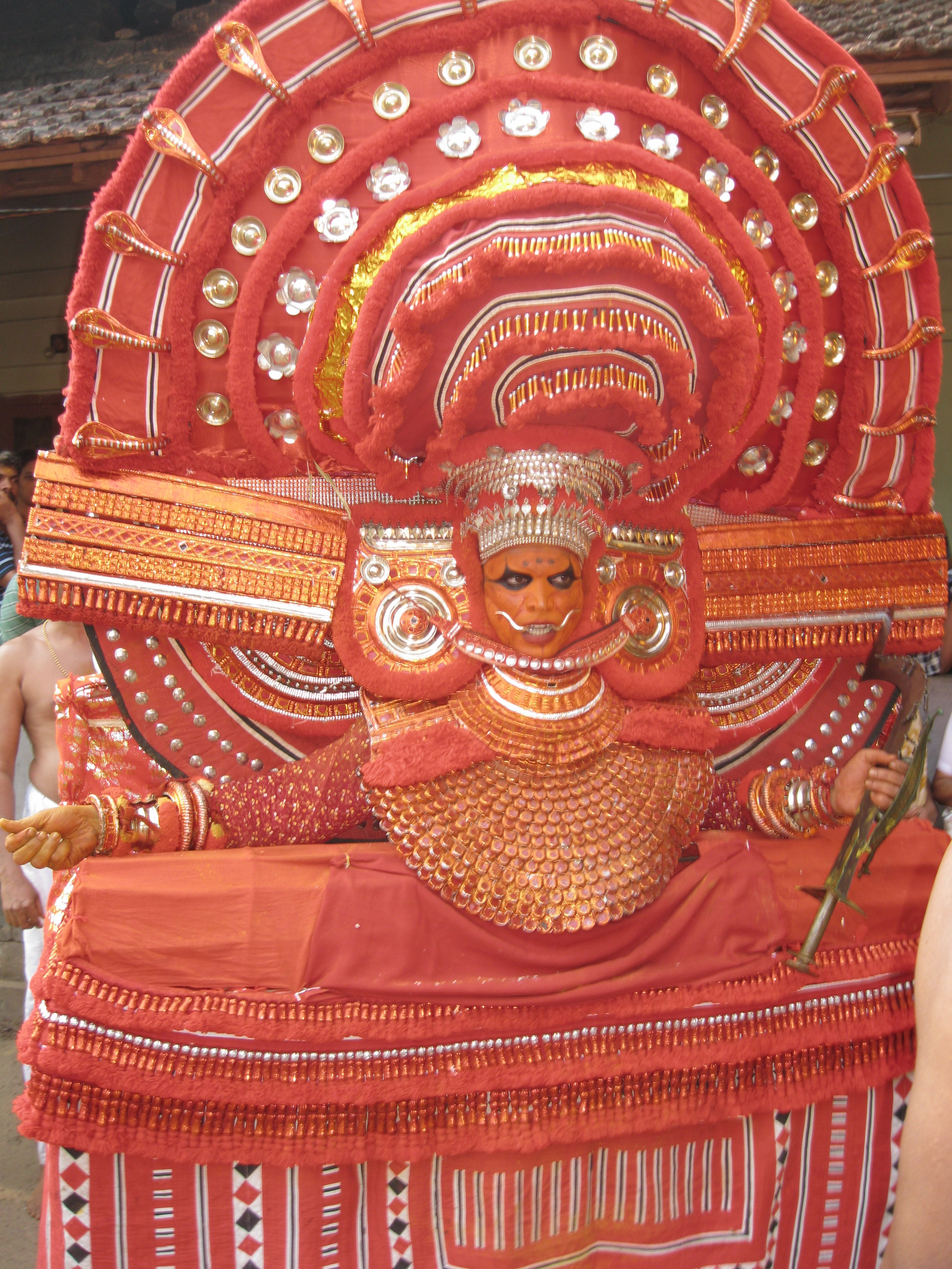 manjal bhagavathi theyyam , Blathur kerala, india